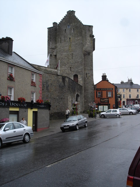 Gate Tower of Rosecrea Castle The castle is a stone castle, and consists of a gate tower, curtain walls and two corner towers dating from the 1280s. Now owned by the state, and has been restored.